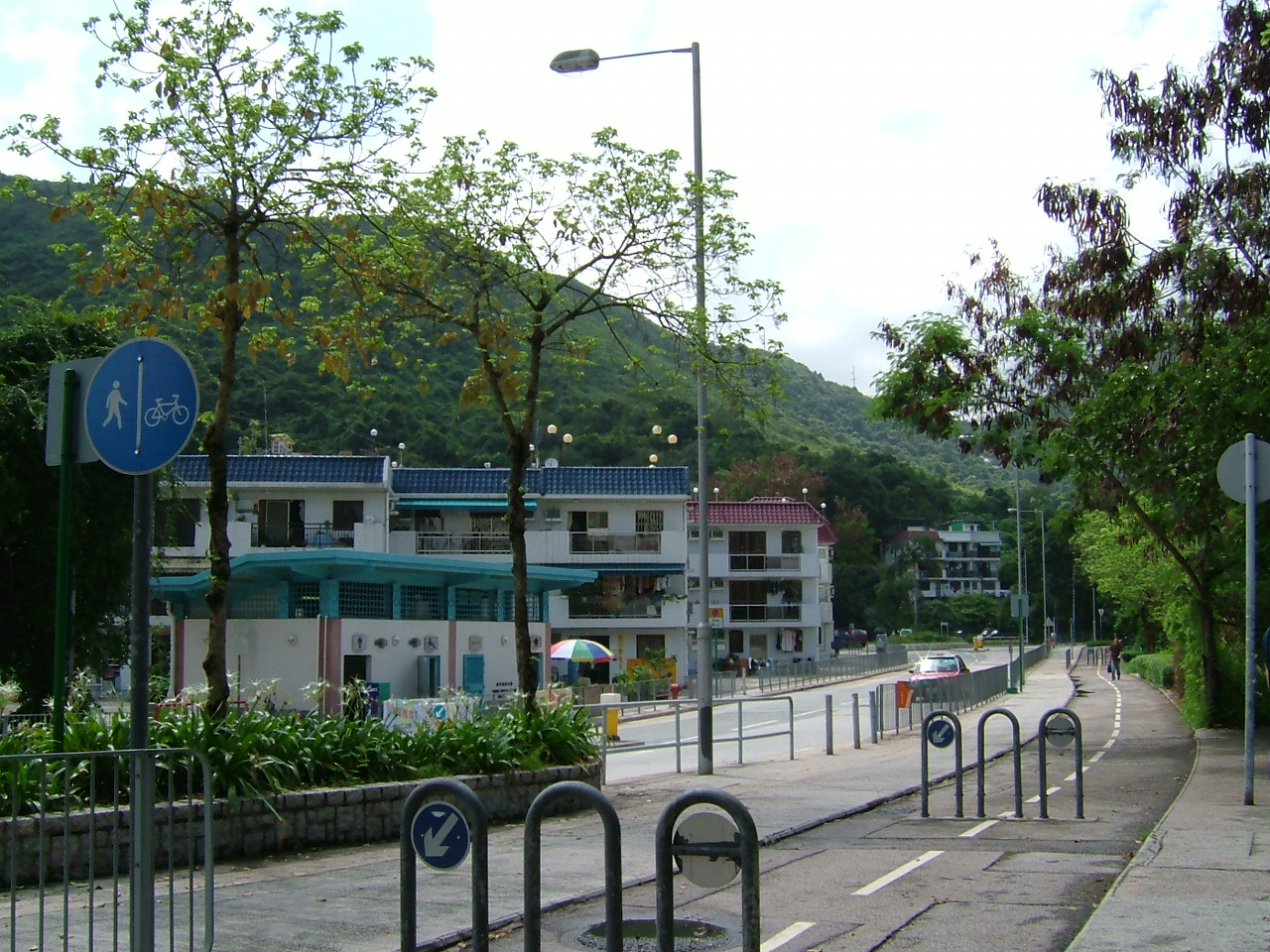 Tseung Kwan O Village 2004 taken by Vincent Ng.